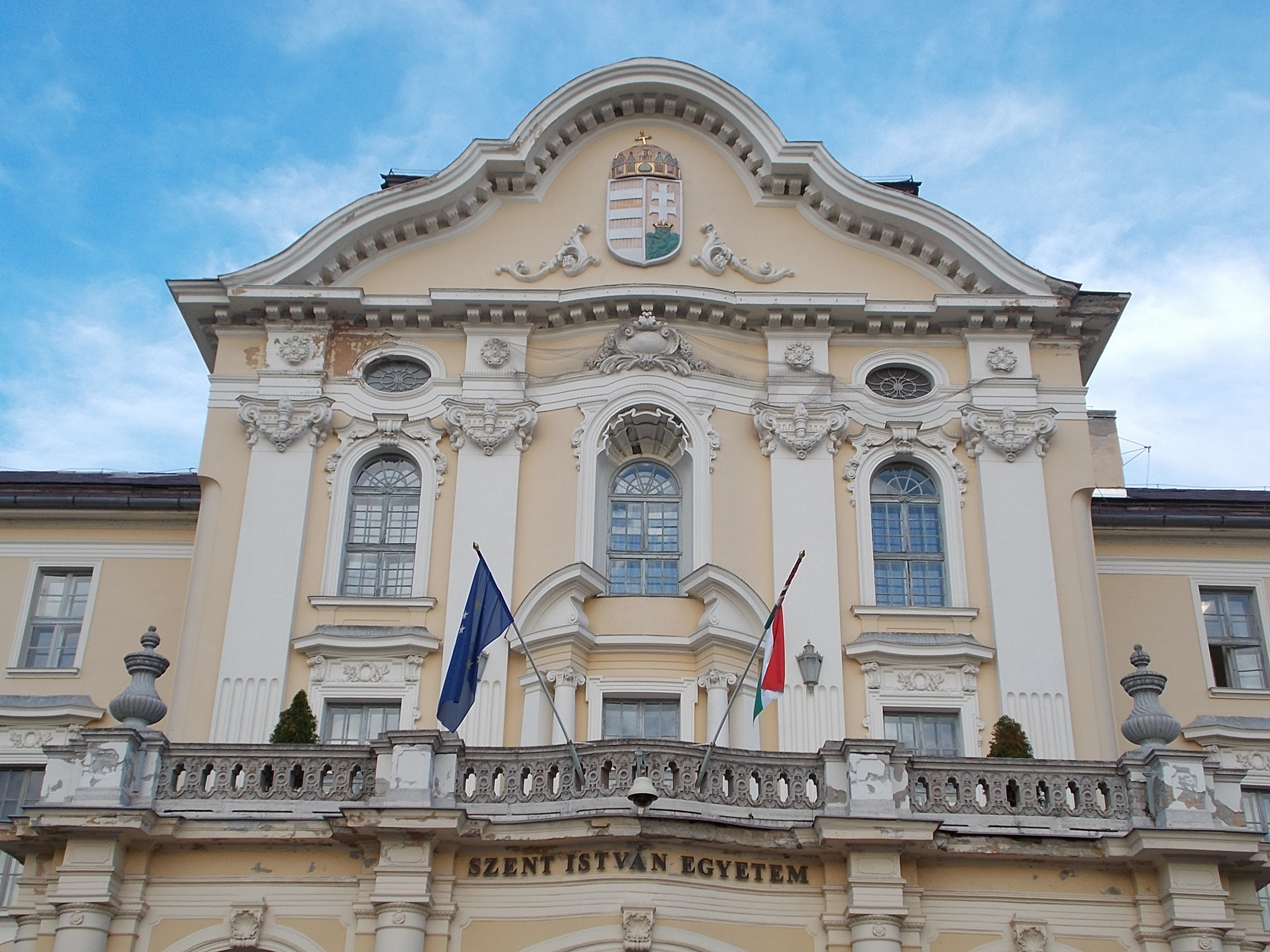 Avant-corps.Main Building of University of Gödöllő. (Szent István University main building). Former Premontrean high school, college and monastery. Built based on plans of Robert K. Kertész and GyulaSvab, 1923-29, Neo-Baroque. - Páter Károly Street, Gödöllő, Pest County, Hungary.